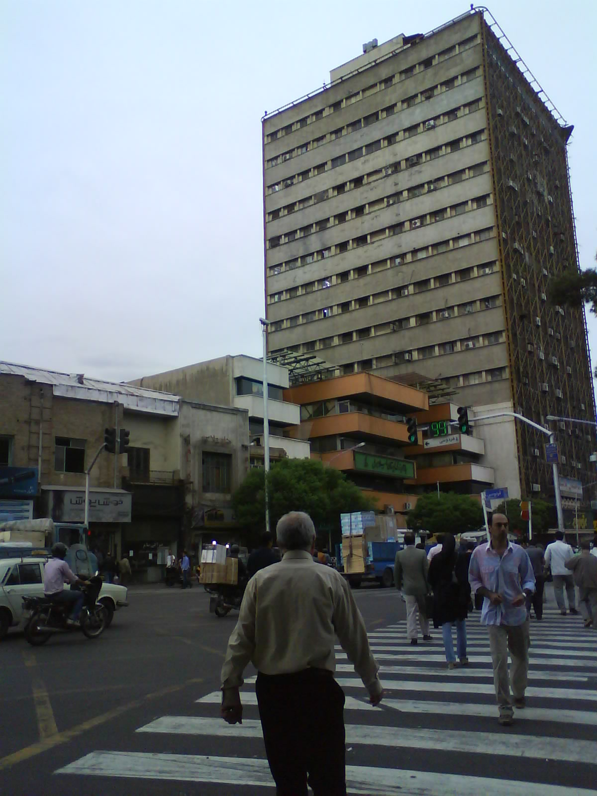 Istanbul intersection and Plasco building in Tehran